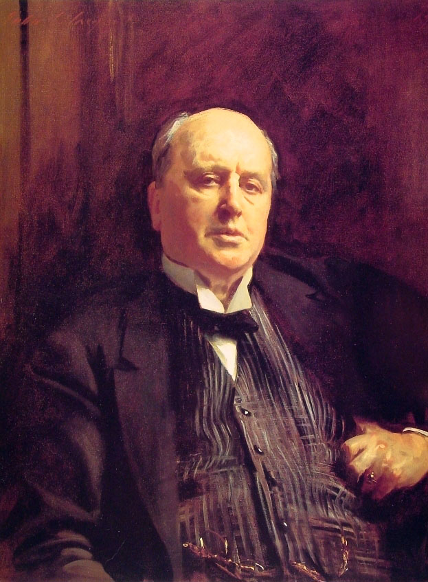 Henry James